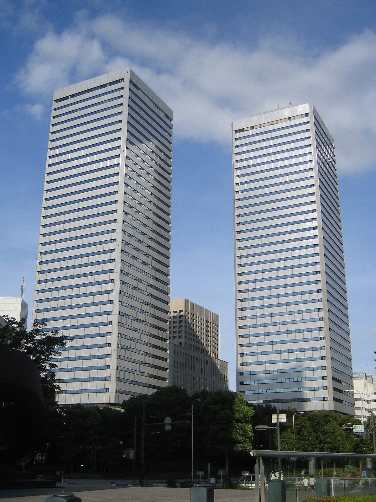 TWIN21ビル（左：パナソニックタワー 右：MIDタワー） （大阪府大阪市中央区城見2-1-61） Osaka Business Park TWIN21 Building (Left side:Panasonic Tower, Right side:MID Tower) Constructed by MID Urban Development Co., a group of Matsushita Electric Industrial Co. (Osaka City, Japan) Photo by Mangos